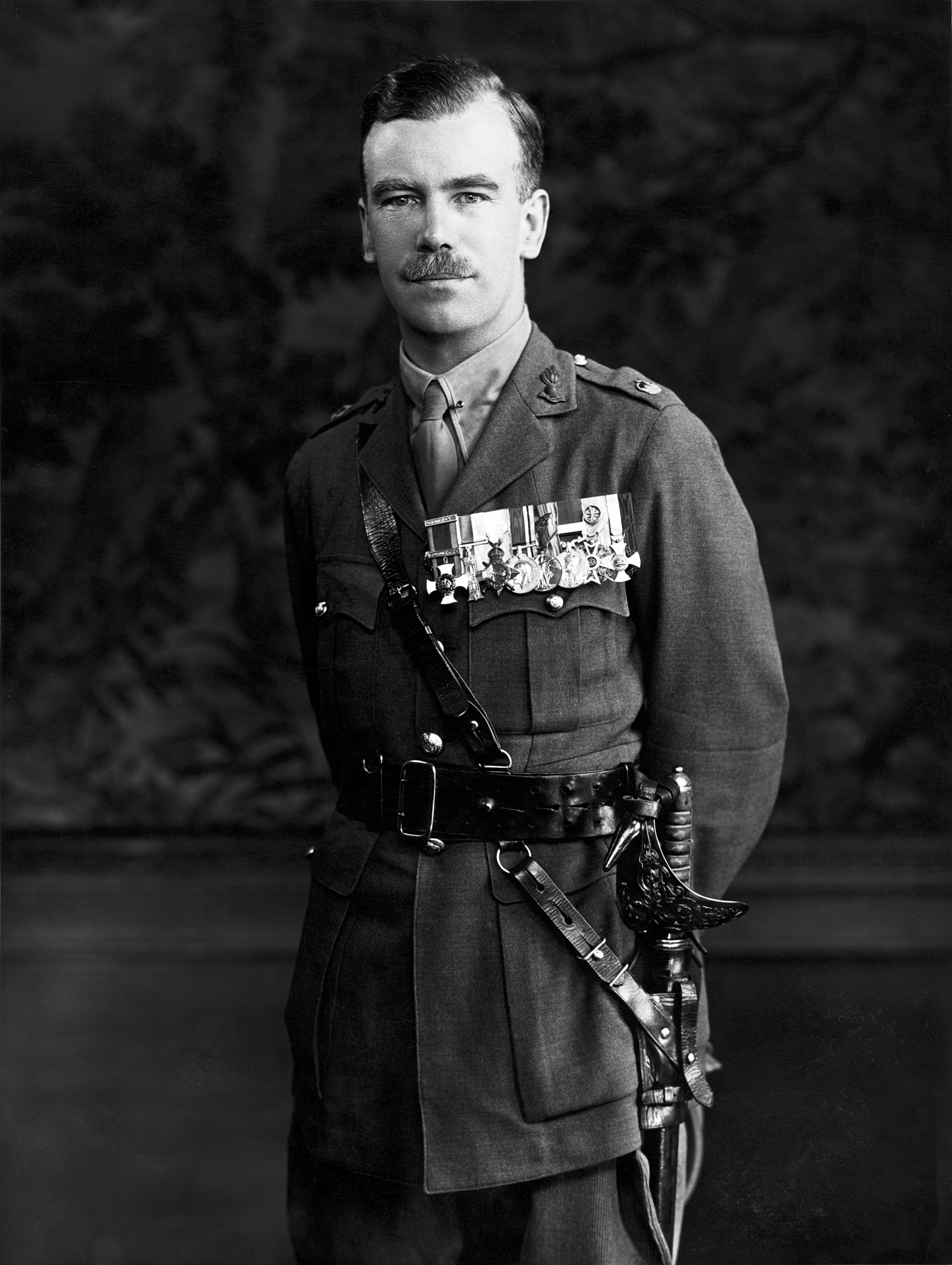 British General Sir Brian Hubert Robertson as a Major in 1934.